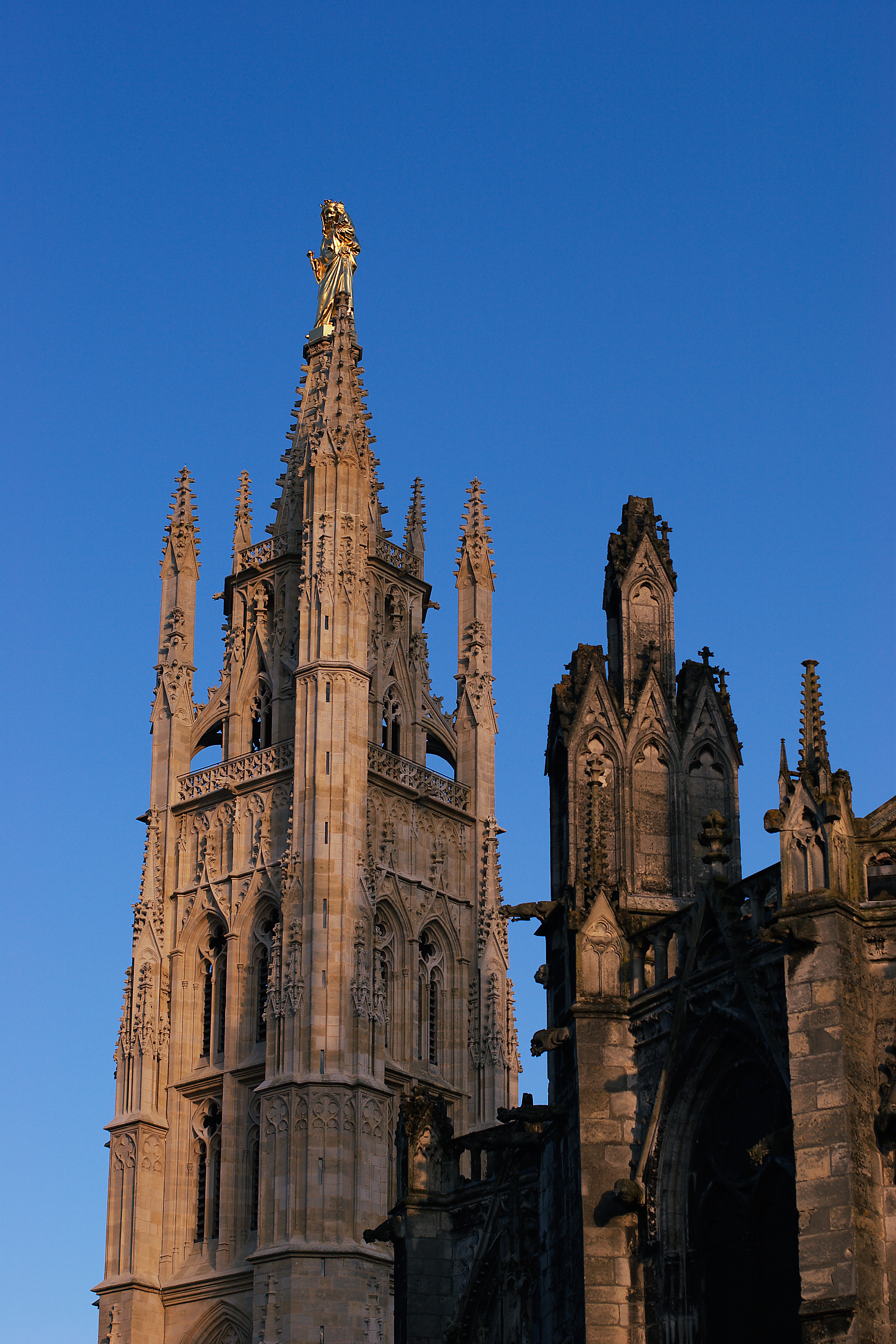 Pey Berland tower near Saint-André Cathedral in Bordeaux, France.